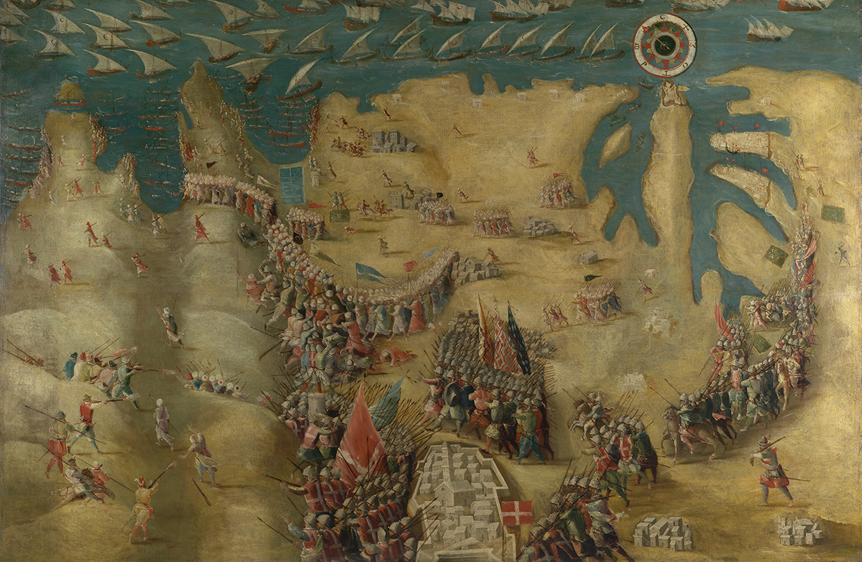 The Siege of Malta: Flight of the Turks, 13 September 1565 This is the seventh of eight pictures commemorating the Siege of Malta in 1565. It documents the rout of the final Turkish expedition against Medina by the relief force on 13 September. After the relieving force of Don Garcia de Toledo had landed on the west side of the island, theTurks prepare to leave. In the central foreground is the fortress of Medina (seen in the foreground) from which the Knights and relieving troops are driving the Turks north-west to their galleys. More Knights are coming from Birgu and St Michael. The Grand Master, La Valette, ordered his captain to reoccupy St Elmo and set up the standard of the Most Holy White Cross. In the left foreground are Christian skirmishers firing at the Turks, and the picture also shows them retreating in a column. In the background is the Turkish fleet, some galleys at sea, some waiting in the bays to embark the soldiers. See also BHC0252-BHC0259. The Siege of Malta: Flight of the Turks, 13 September 1565